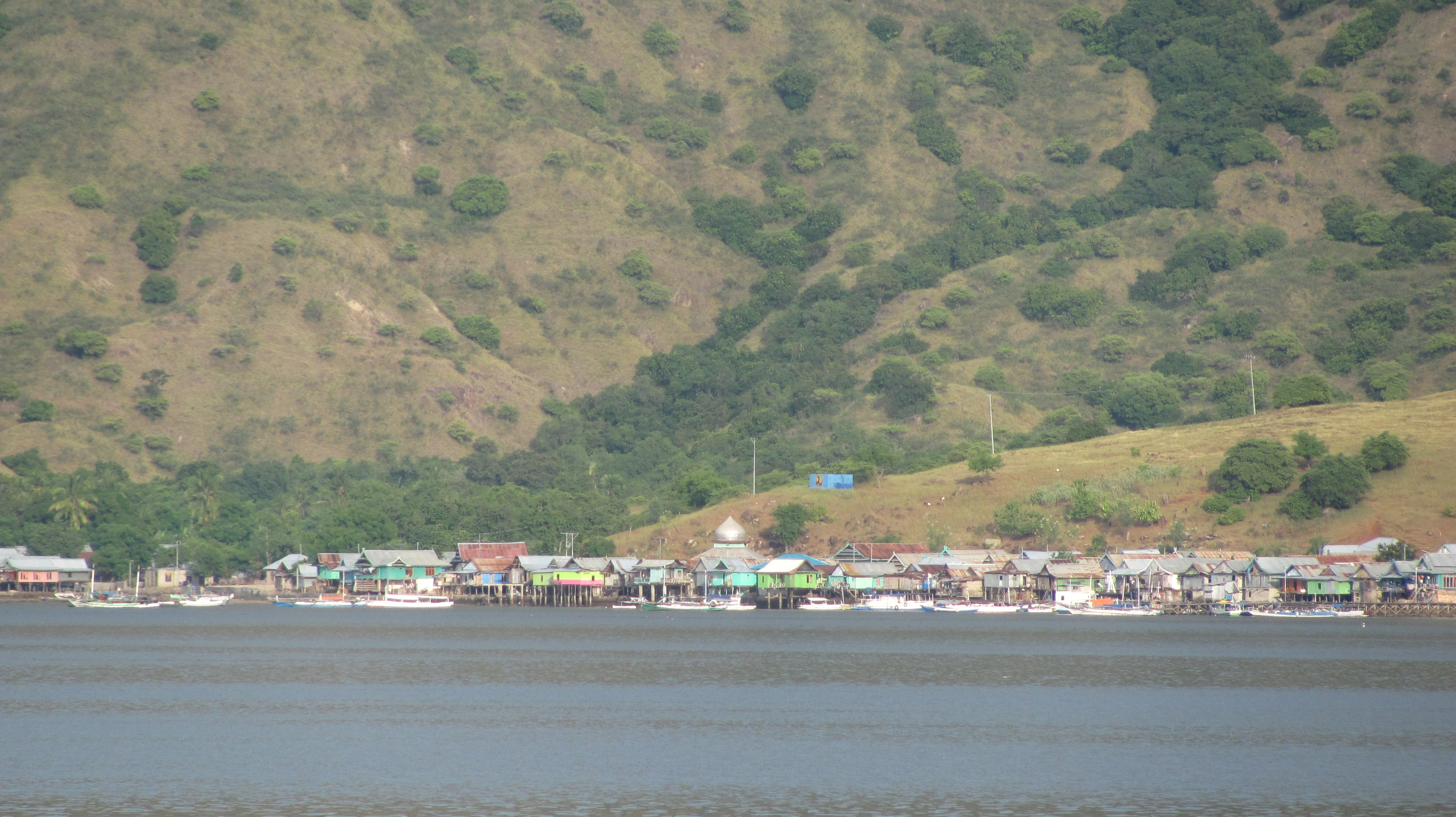 Komodo Village, Komodo Island, Indonesia